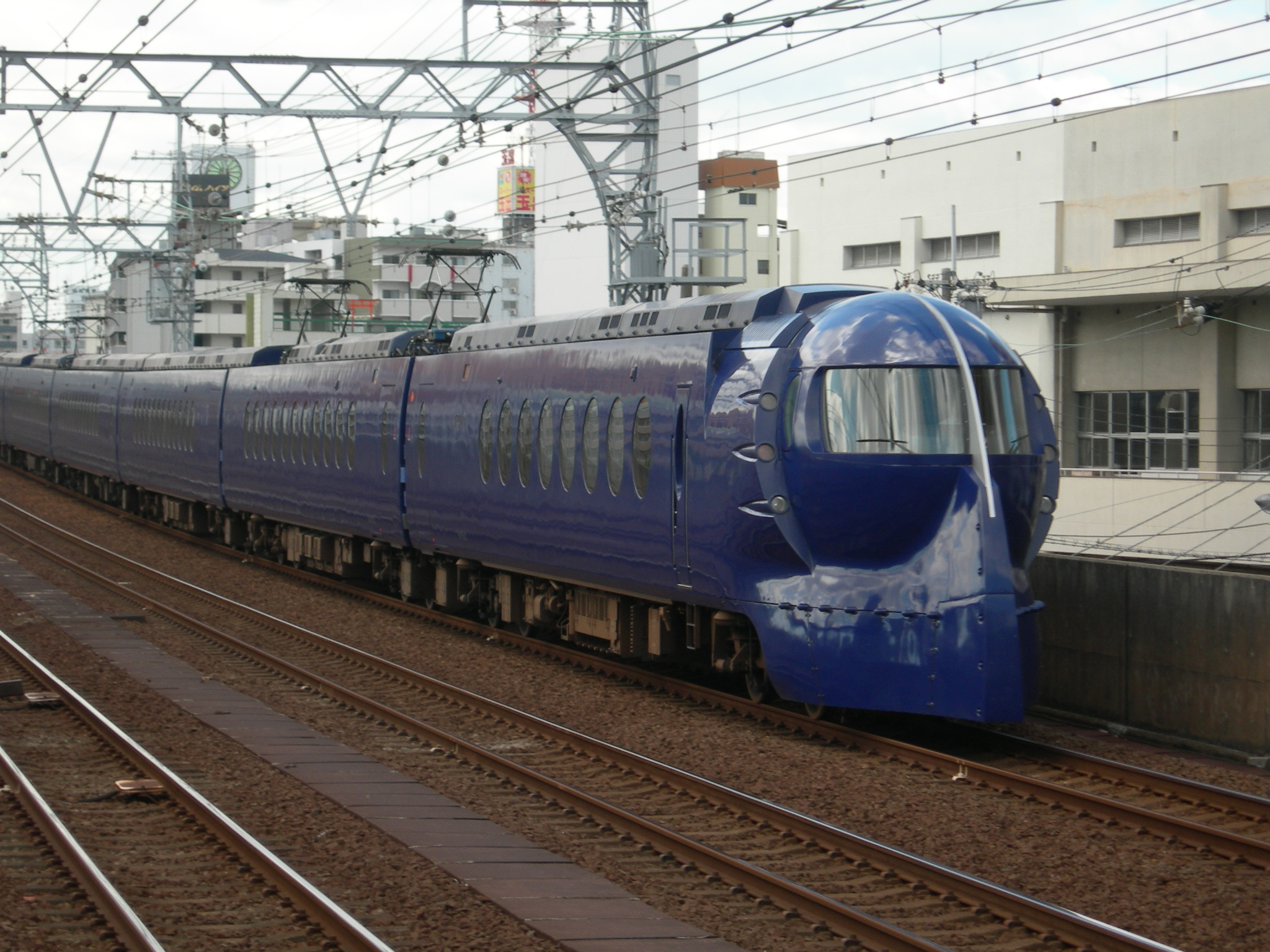 Nankai 50000 series Rapi:t. Shooting at the Imamiyaebisu Station.